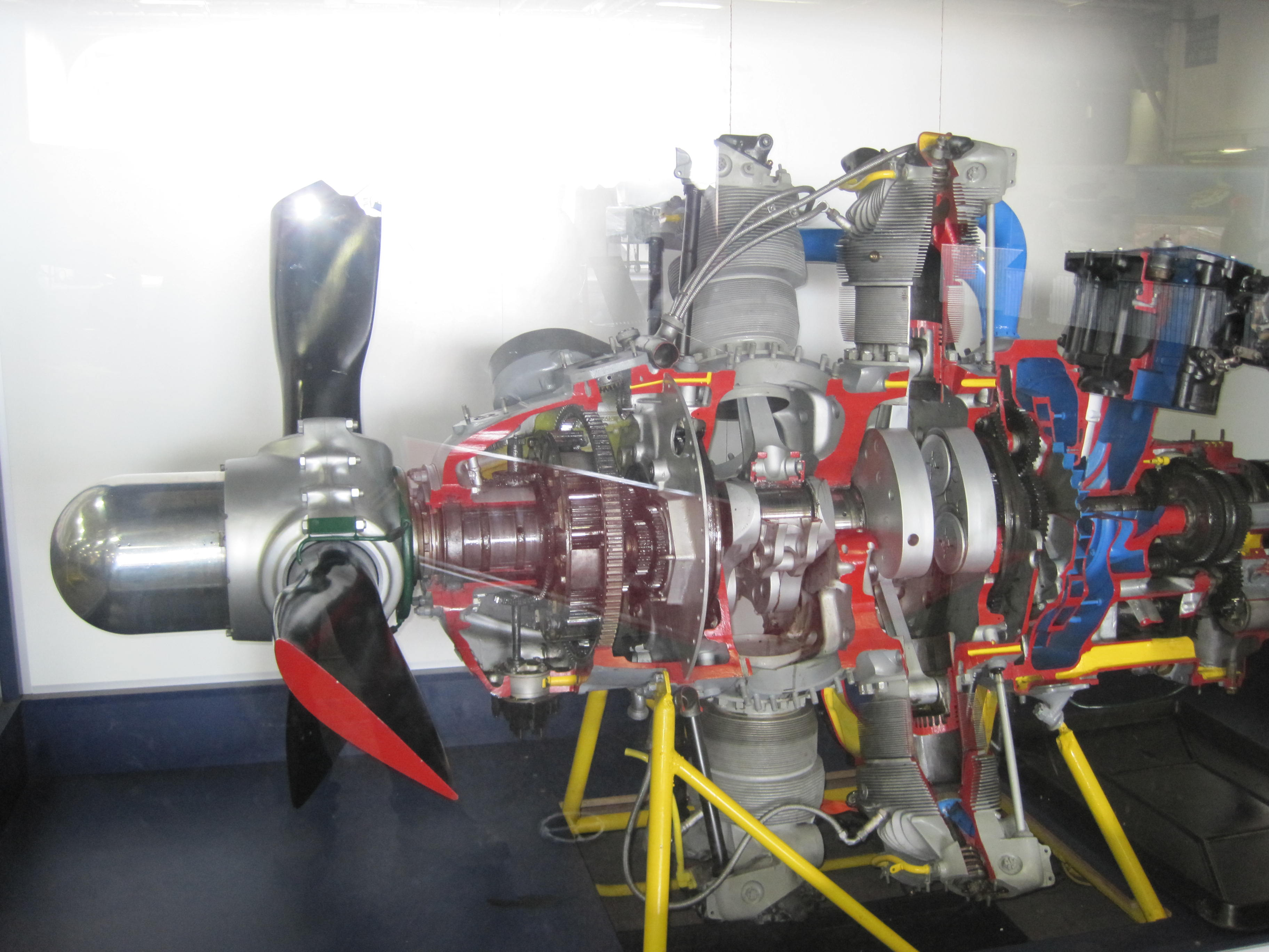 A Pratt & Whitney R-2800 Double Wasp on display in the hangar deck of the USS Midway (CV-41), now the USS Midway Museum in San Diego, California.